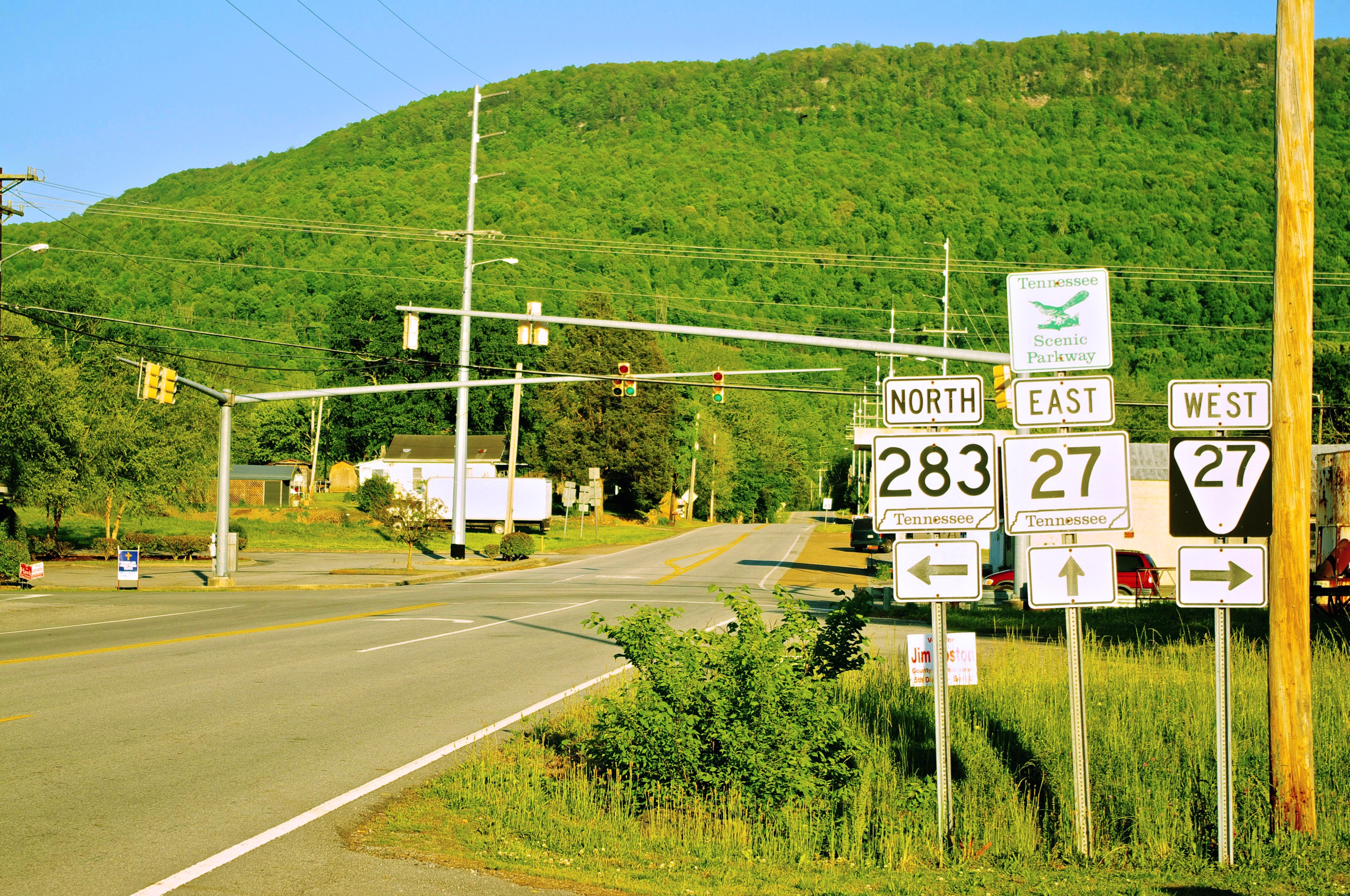 Intersection of State highways 283 and 27 in Powells Crossroads, Tennessee, United States; Walden Ridge (part of the Cumberland Plateau) rises in the distance.